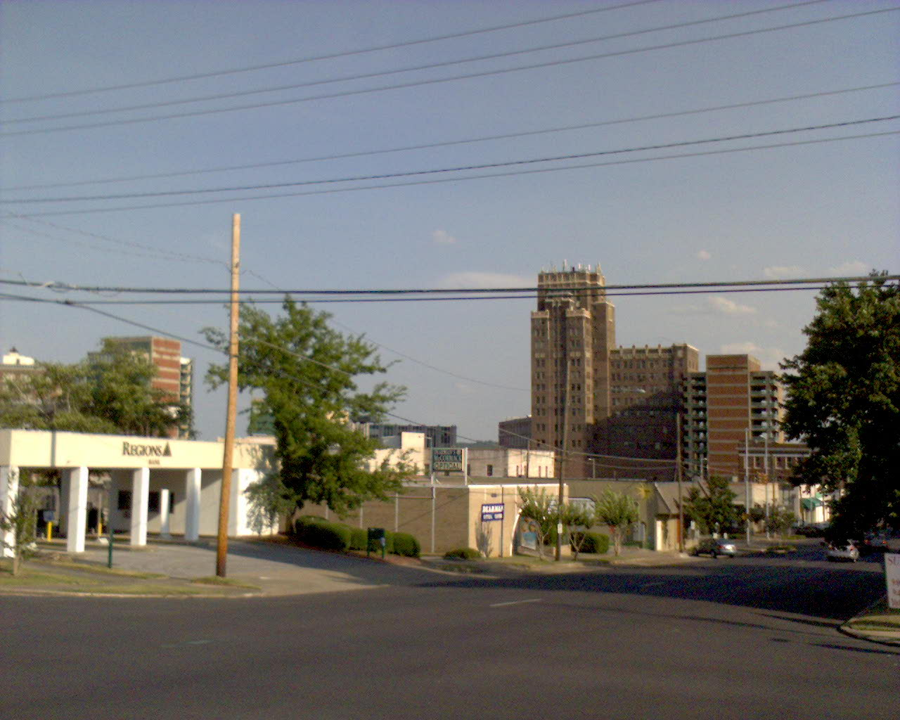 Meridian, Mississippi. Taken by me, at the intersection in front of Central United Methodist Church